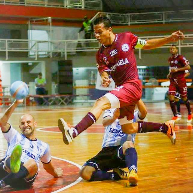 Futsal game between national teams of Argentina and Venezuela